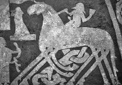 The Norse god Odin on his horse Sleipnir, featured on the Tjängvide image stone In Vallhalla From Image:Ardre Odin Sleipnir.jpg.